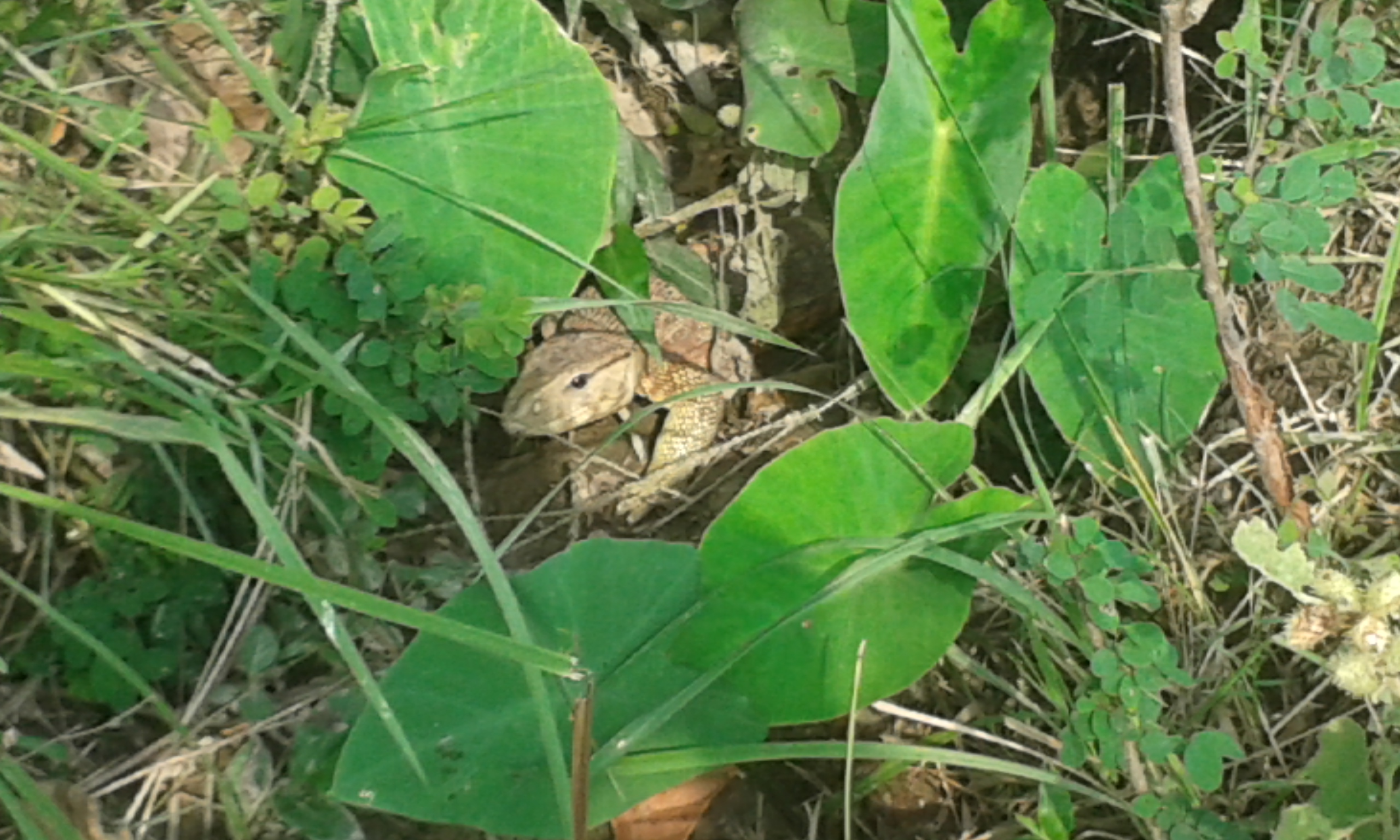 golden monitor lizard,seen in Nepal